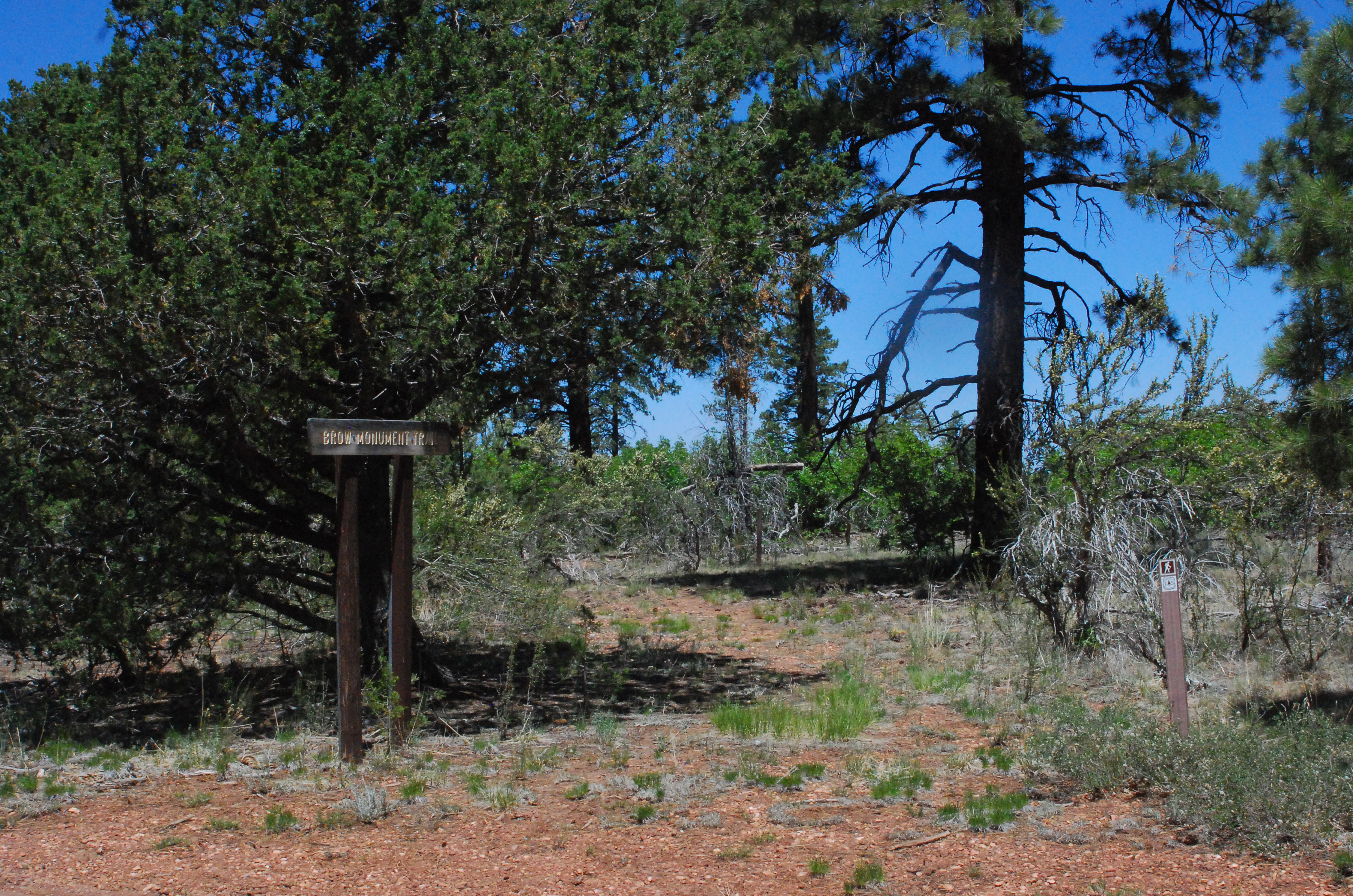 This photograph shows the trailhead sign for the start of the trail to Brow monument